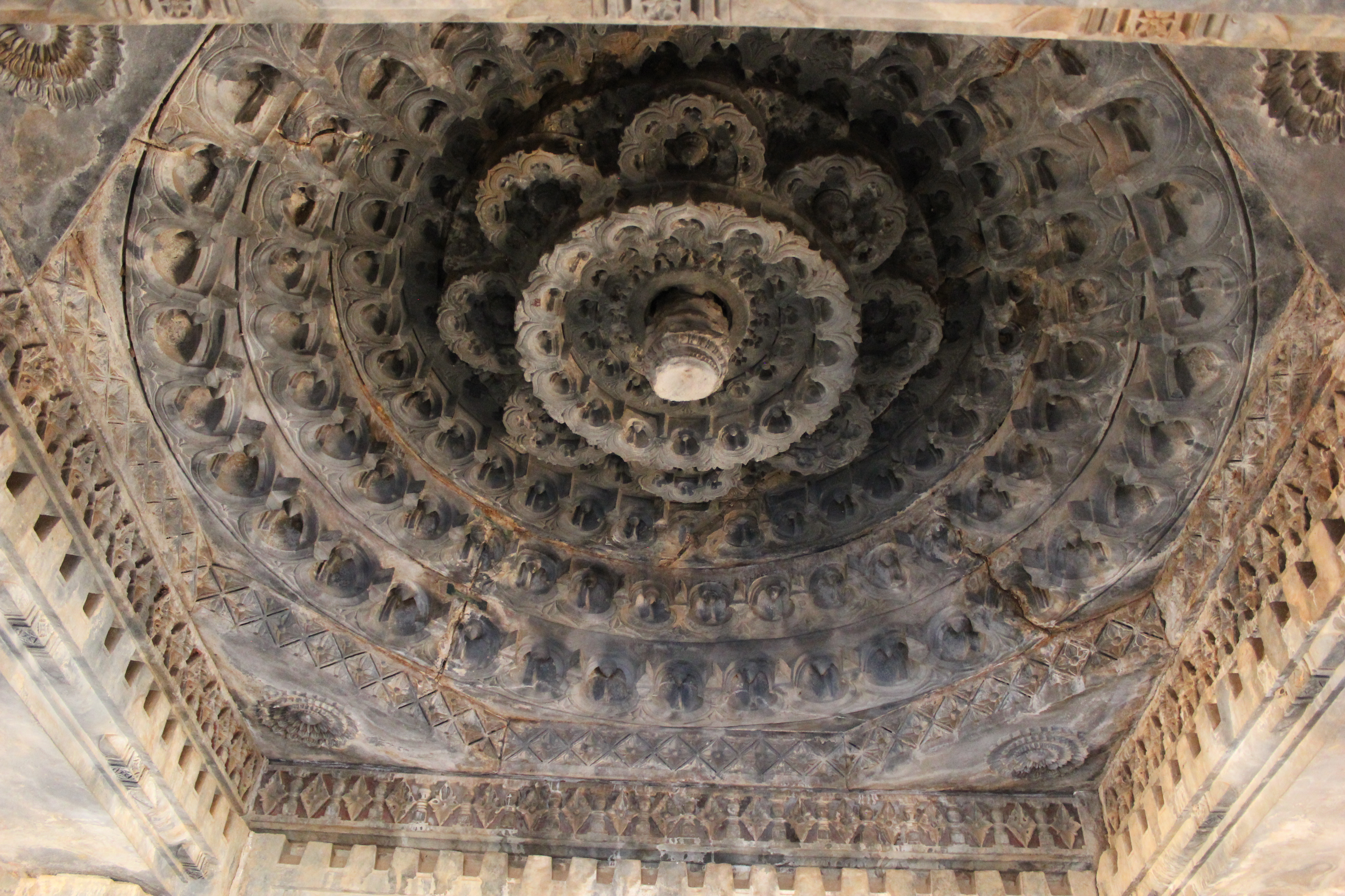 The Nagareshvara temple (also called Aravattu Kambada Gudi literally meaning "60 pillared temple") was built by the Kalyani (western) Chalukyas in the late 11th century - early 12th century AD during the rule of King Vikramaditya VI. Bankapura is a town located in the Haveri district of the Karnataka state, India.